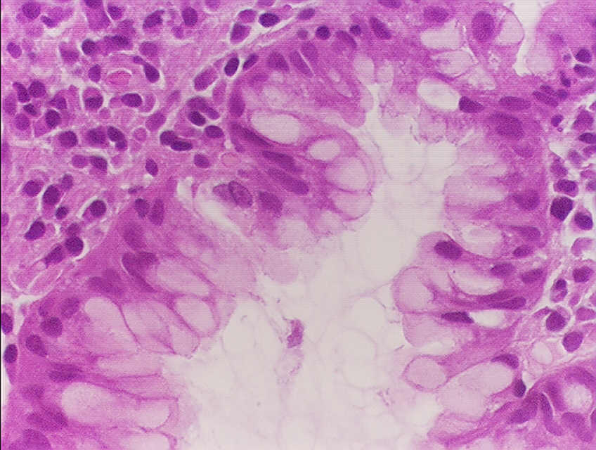 Gastric biopsy, H&E, 400x. Helicobacter pylori is barely visible inside mucus.